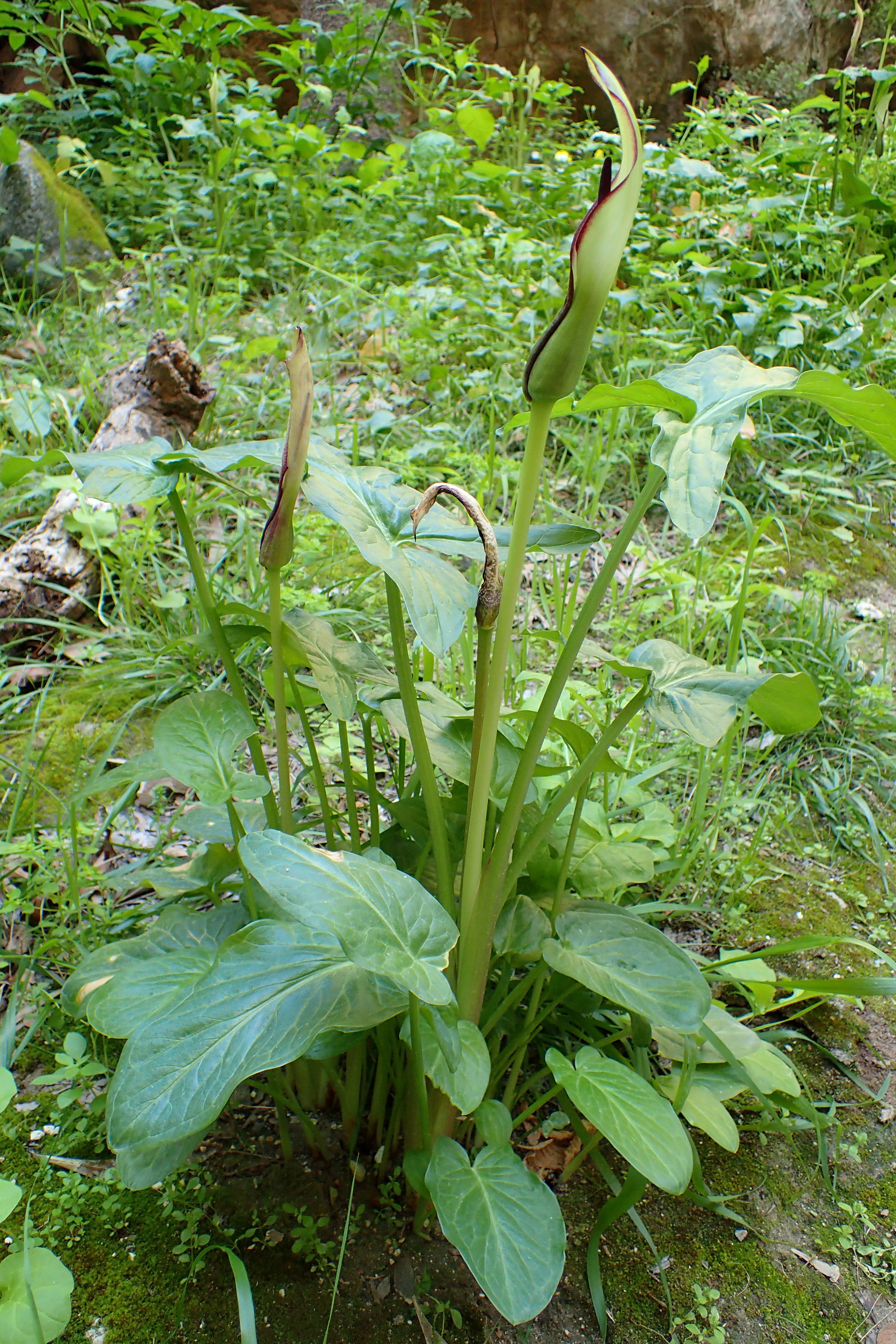 Arum hygrophilum in Avakas Gorge, Cyprus